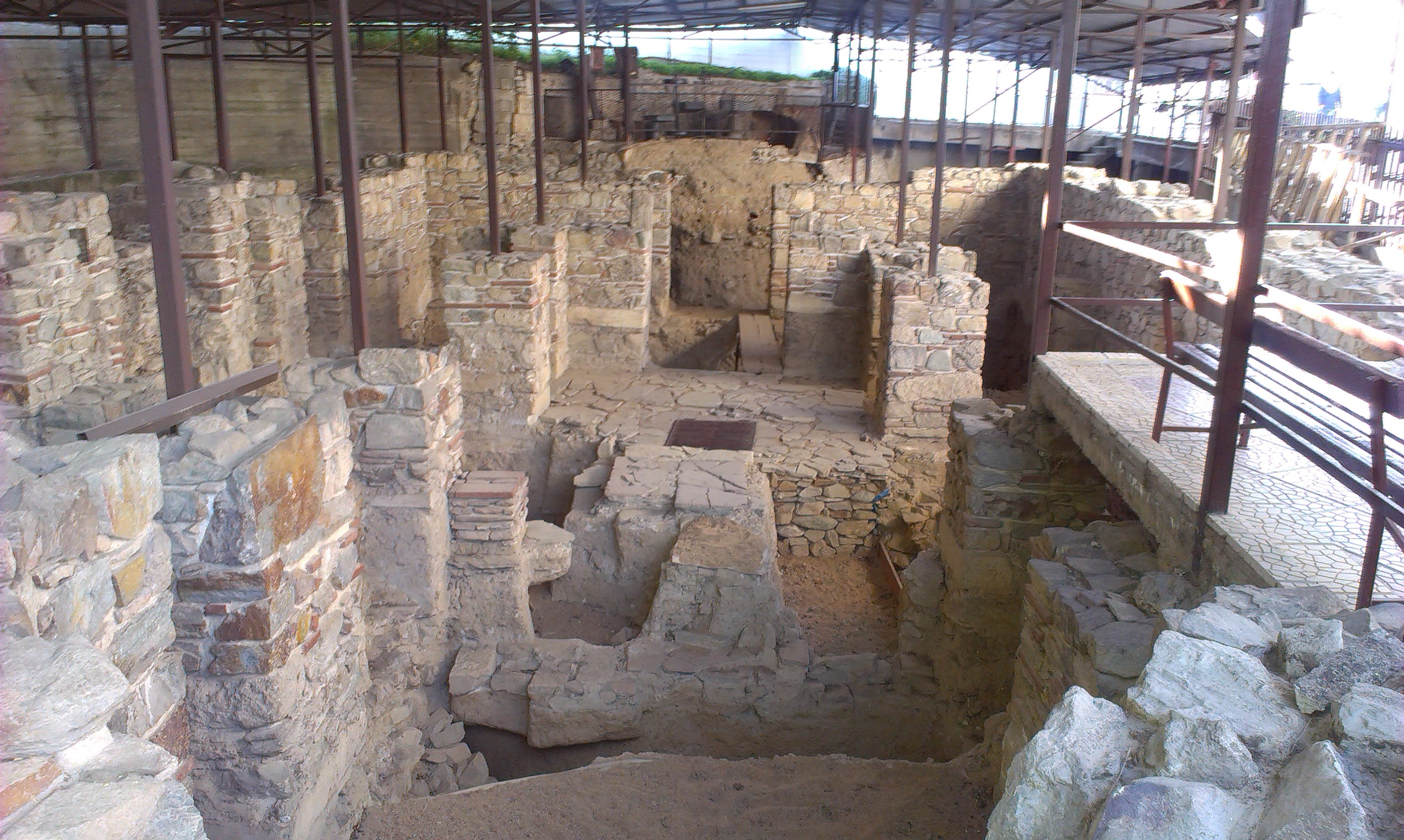 Sts. 15 Martyrs of Tiveriopolis